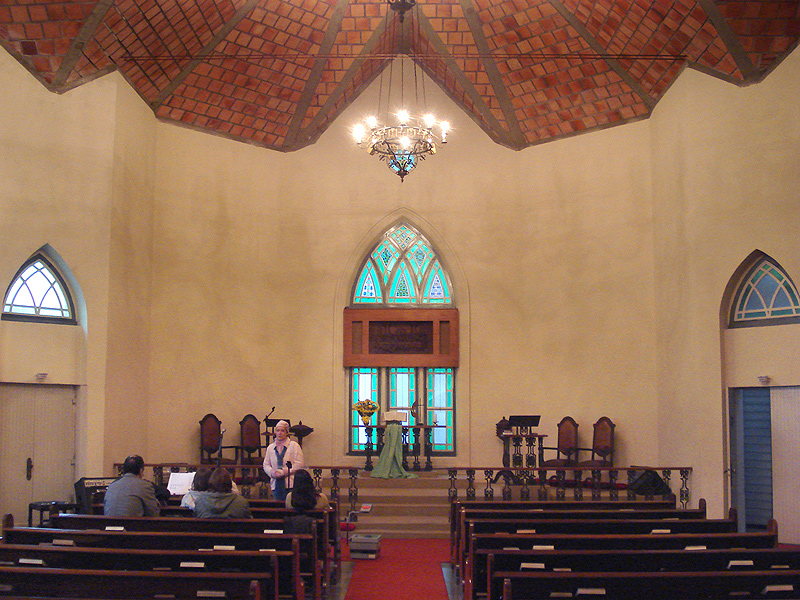 Interior of the Central Methodist Church, Porto Alegre, Brazil